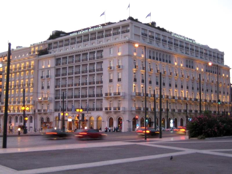 The legendary hotel Grande Bretagne in central Athens, Greece. Located in Syntagma Square. Photo taken in 2006.